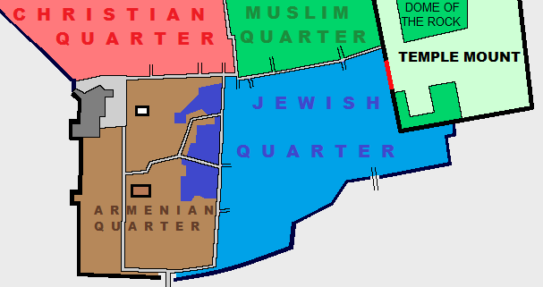 author: Jan de Jong (Palestinian Academic Society for the Study of International Affairs)